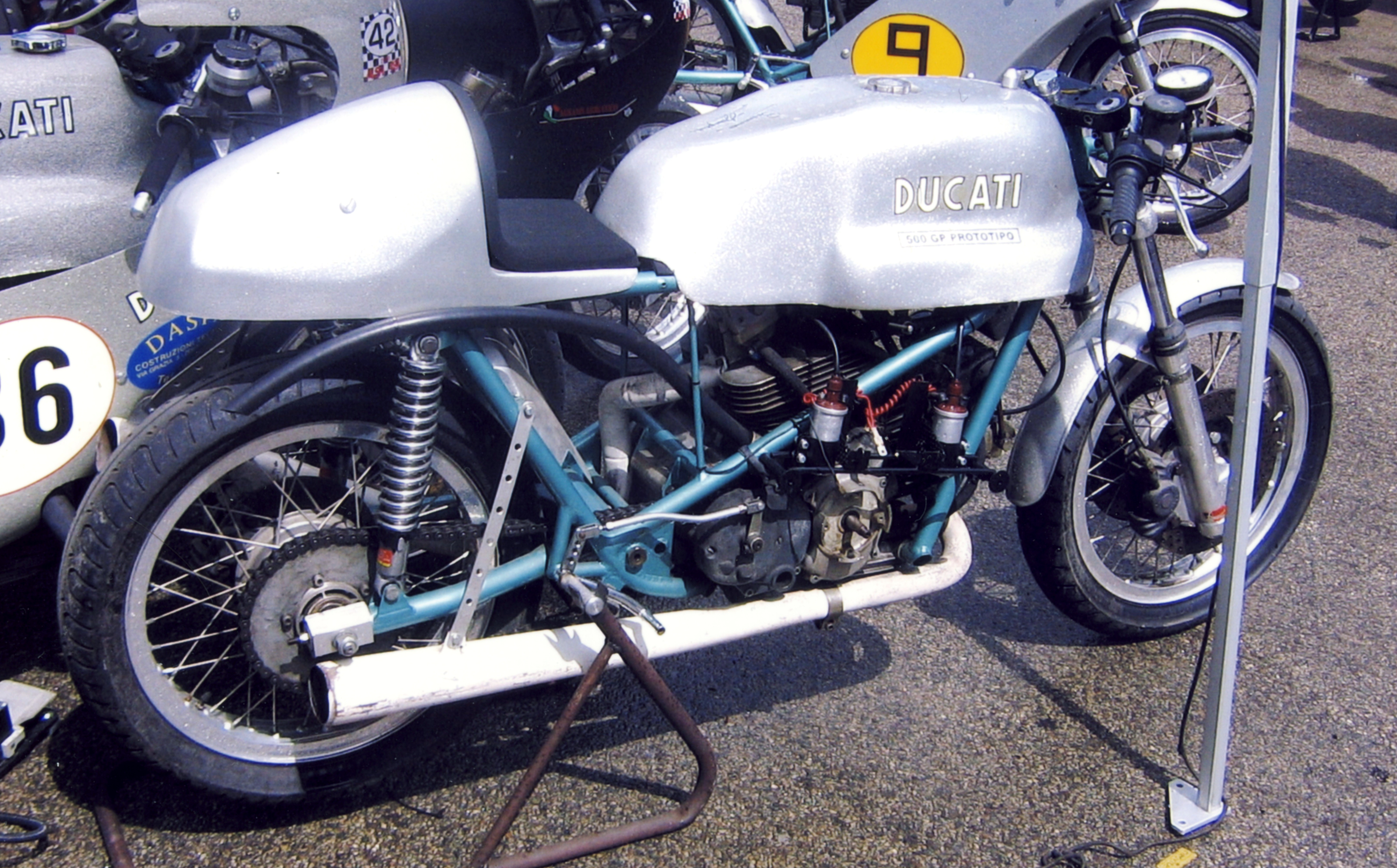 Ducati 500 GP prototipo "Armaroli" al "Pasolini Day" di Rimini, maggio 2007.